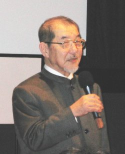 Kihachirô Kawamoto at Paris, Forum des images